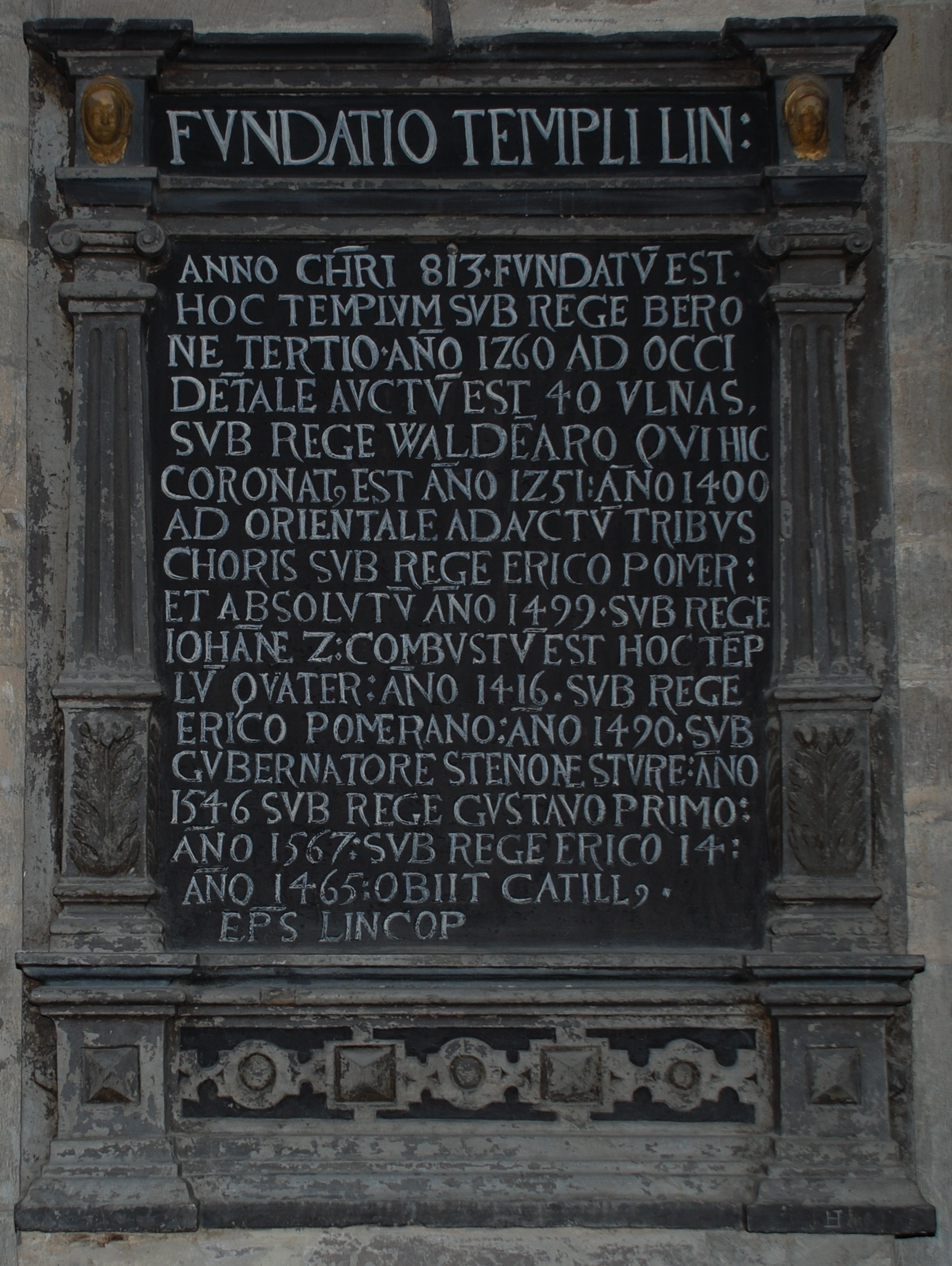 Plaque in Linköping Cathedral, Sweden, with apocryphal history of the building; the text is probably due to Messenius